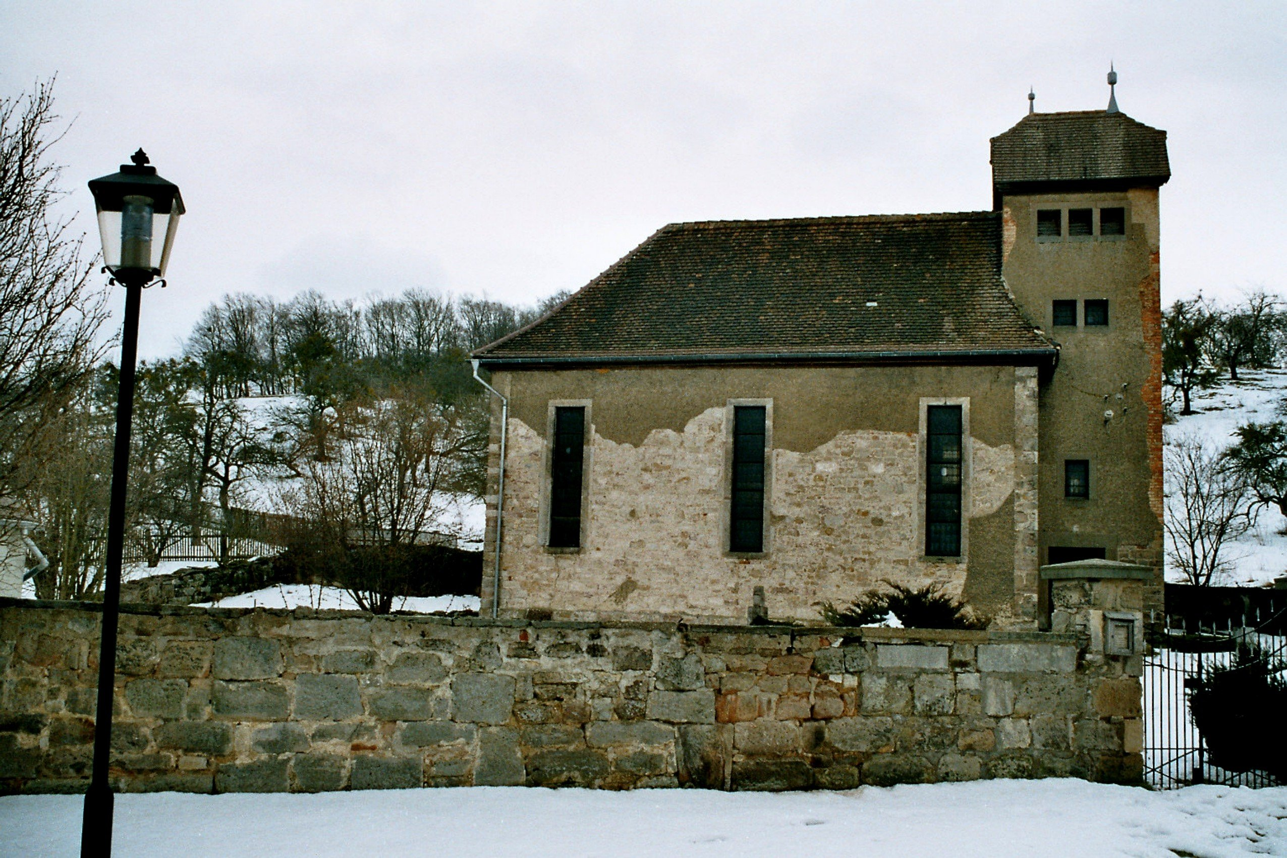 The village church in Tünschütz)